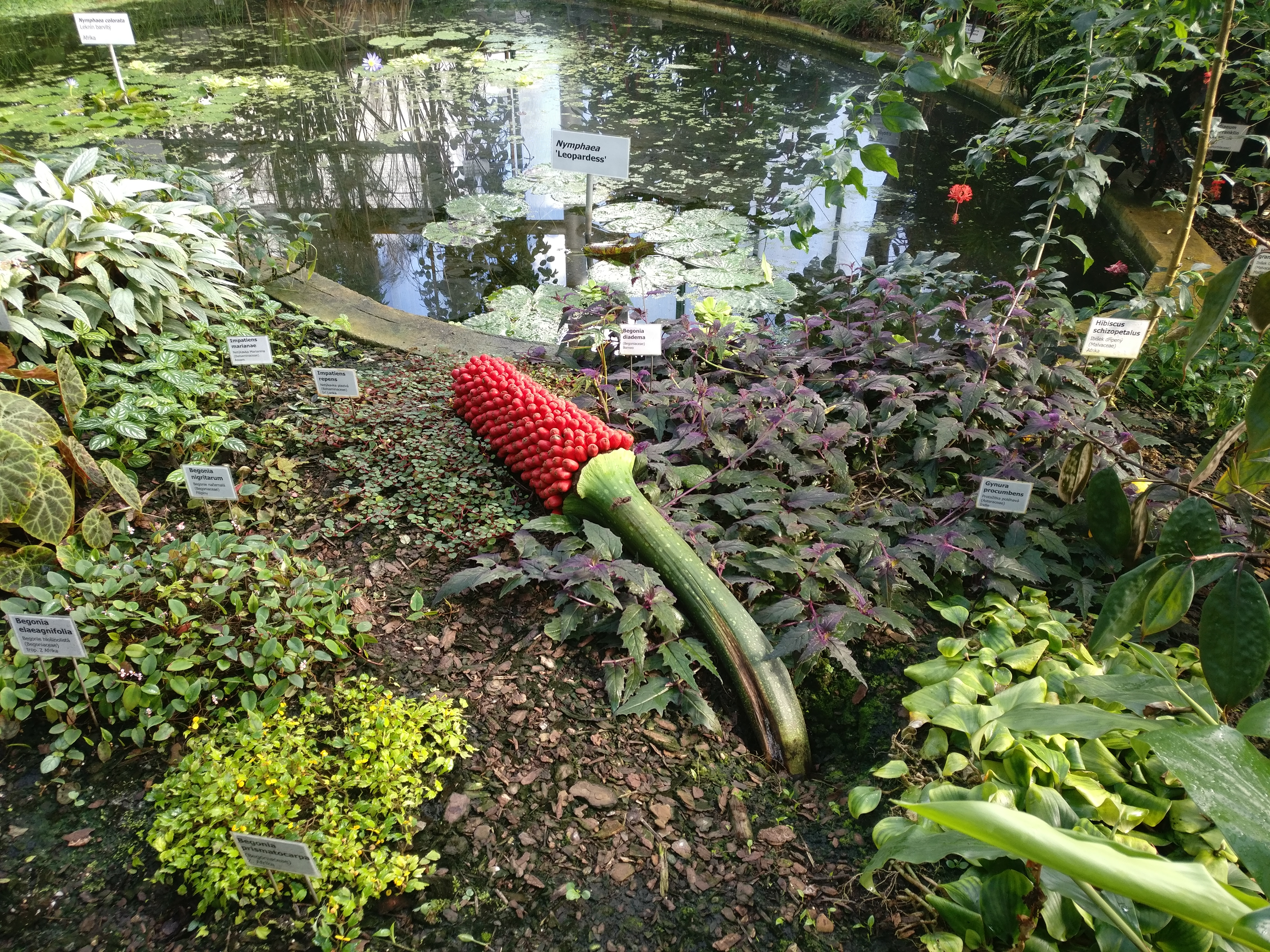 A rare sight, fruits of the Titan Arum in botanical Garden in Liberec on 7.4.2018